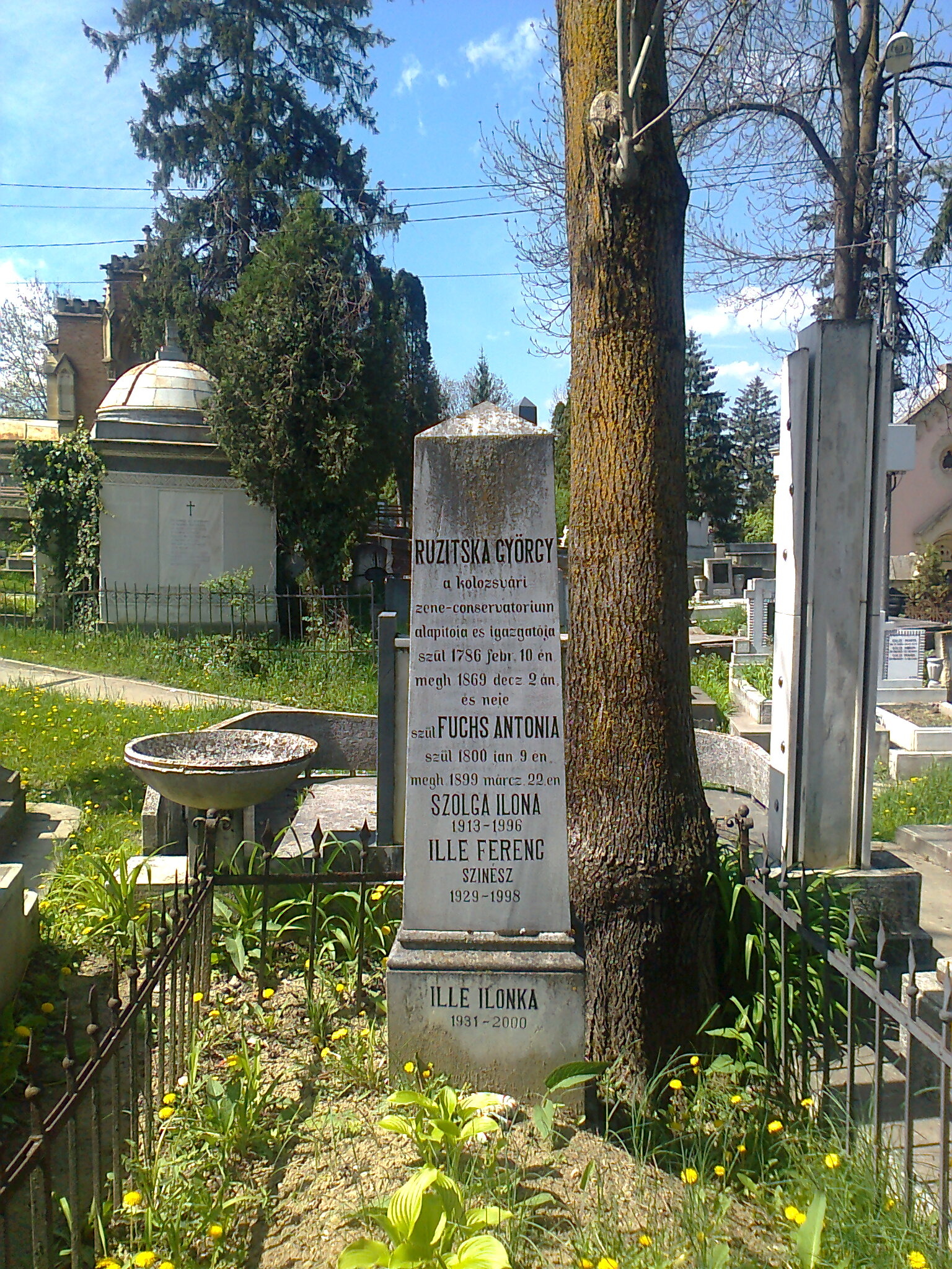 Grave of Ruzitska György in Házsongárd Cemetery Cluj-Kolozsvár